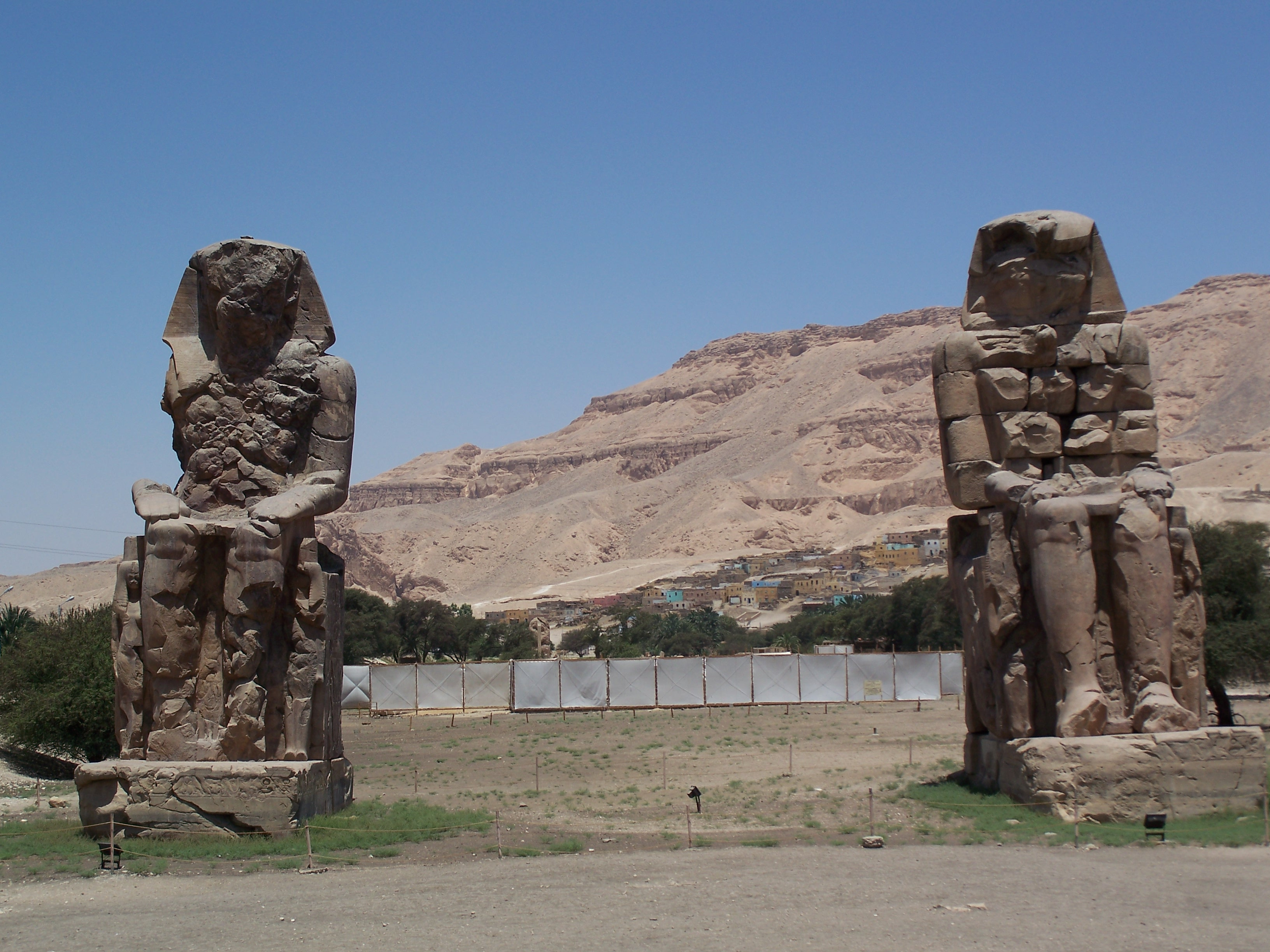 Pharaoh Amenhotep III's Sitting Colossi of Memnon statues at Luxor, Egypt.